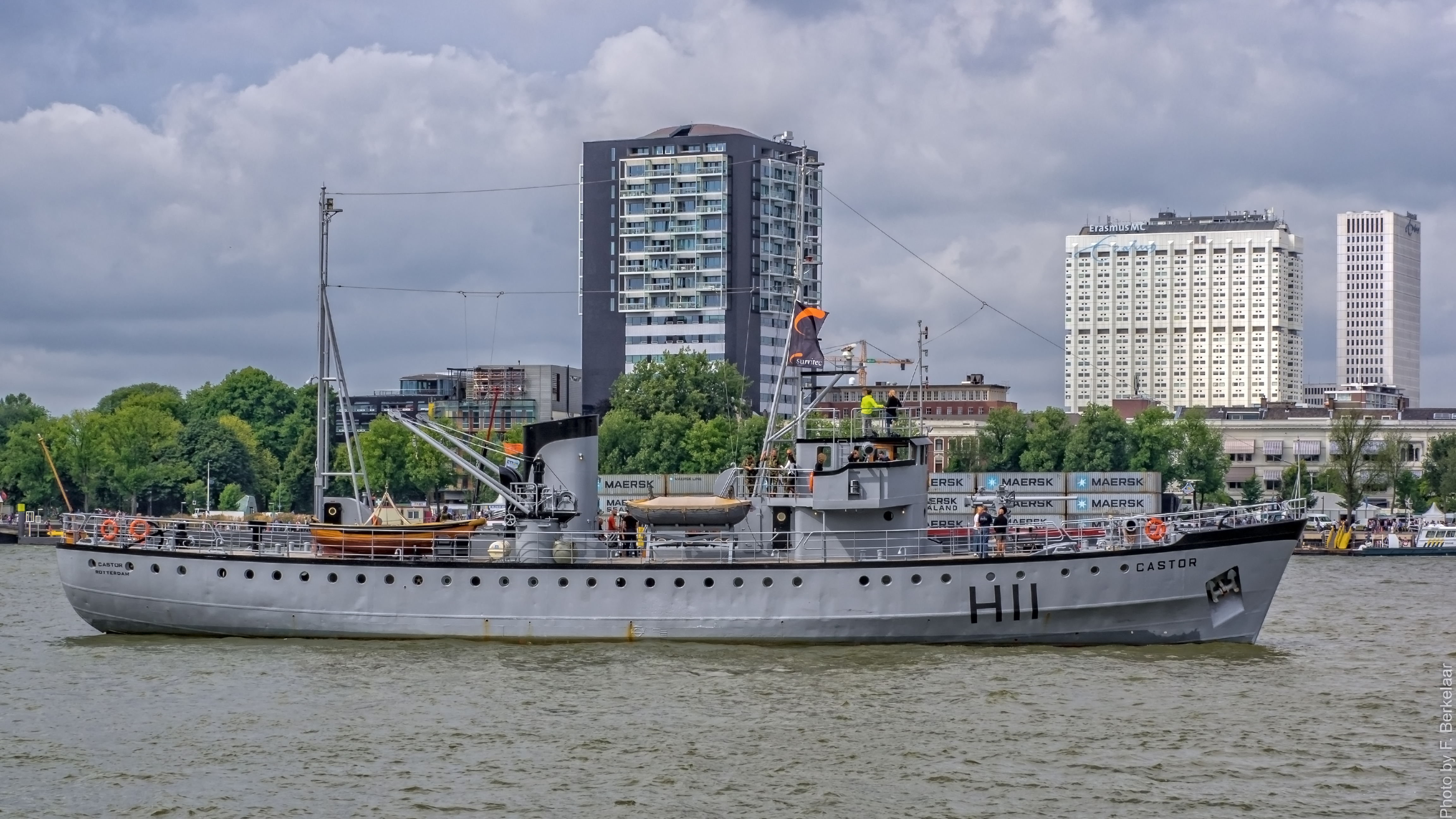 MLV Castor in Rotterdam Port in september 2016. The ship features in Christopher Nolan's movie "Dunkirk".